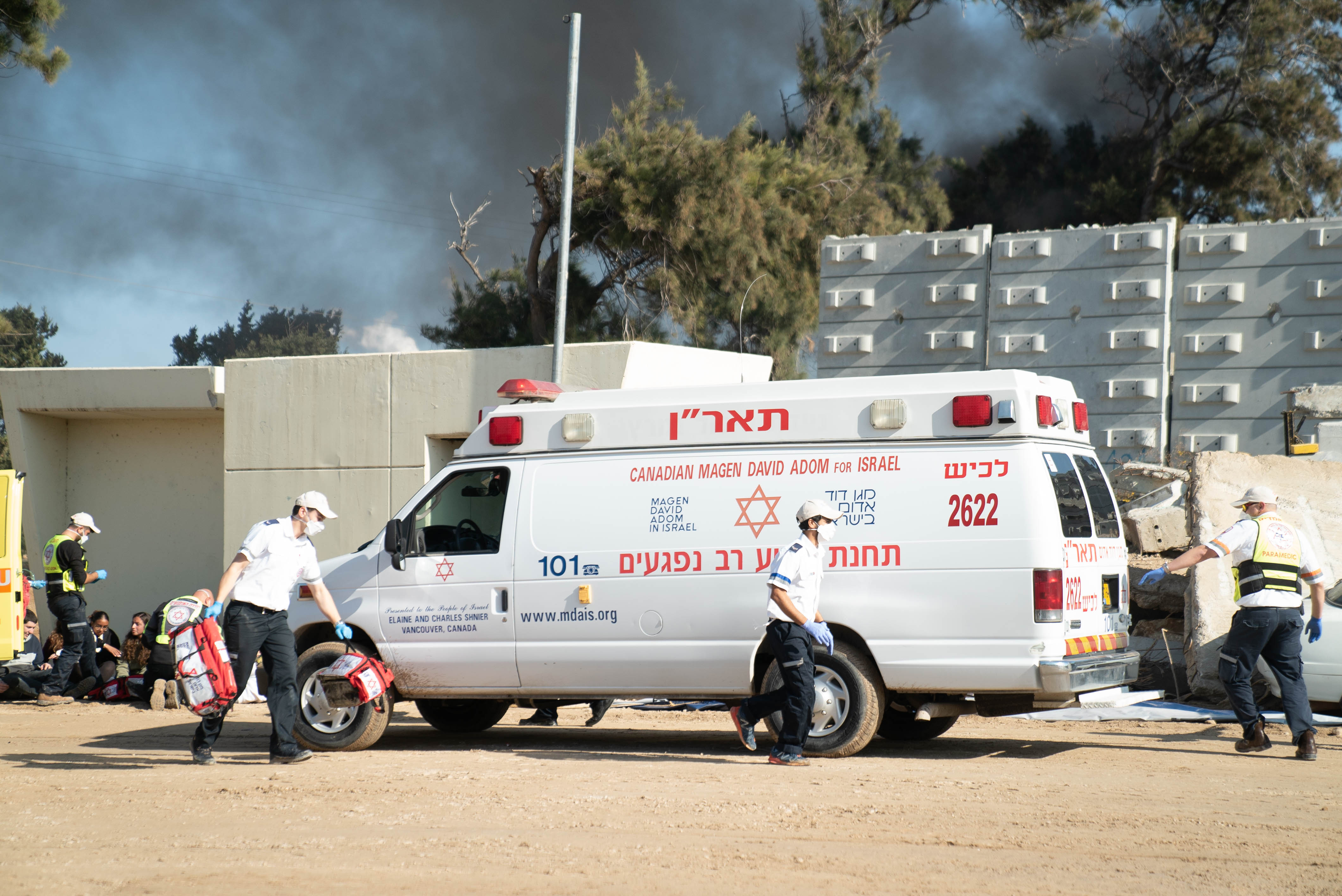 IPRED - The 6th International Conference on Preparedness & Response to Emergencies & Disasters 12 – 15 January 2020, Israel.